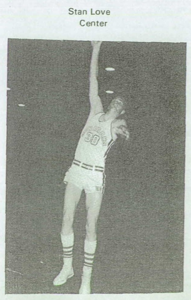 Stan Love from high school yearbook (1967).